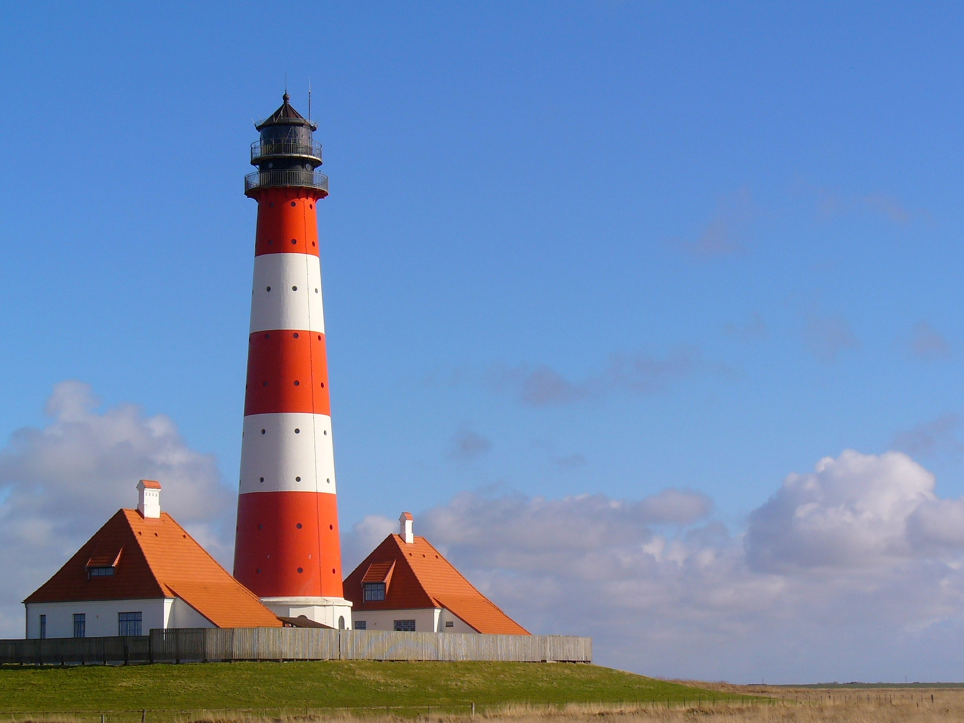 The lighthouse of Westerheversand, Germany